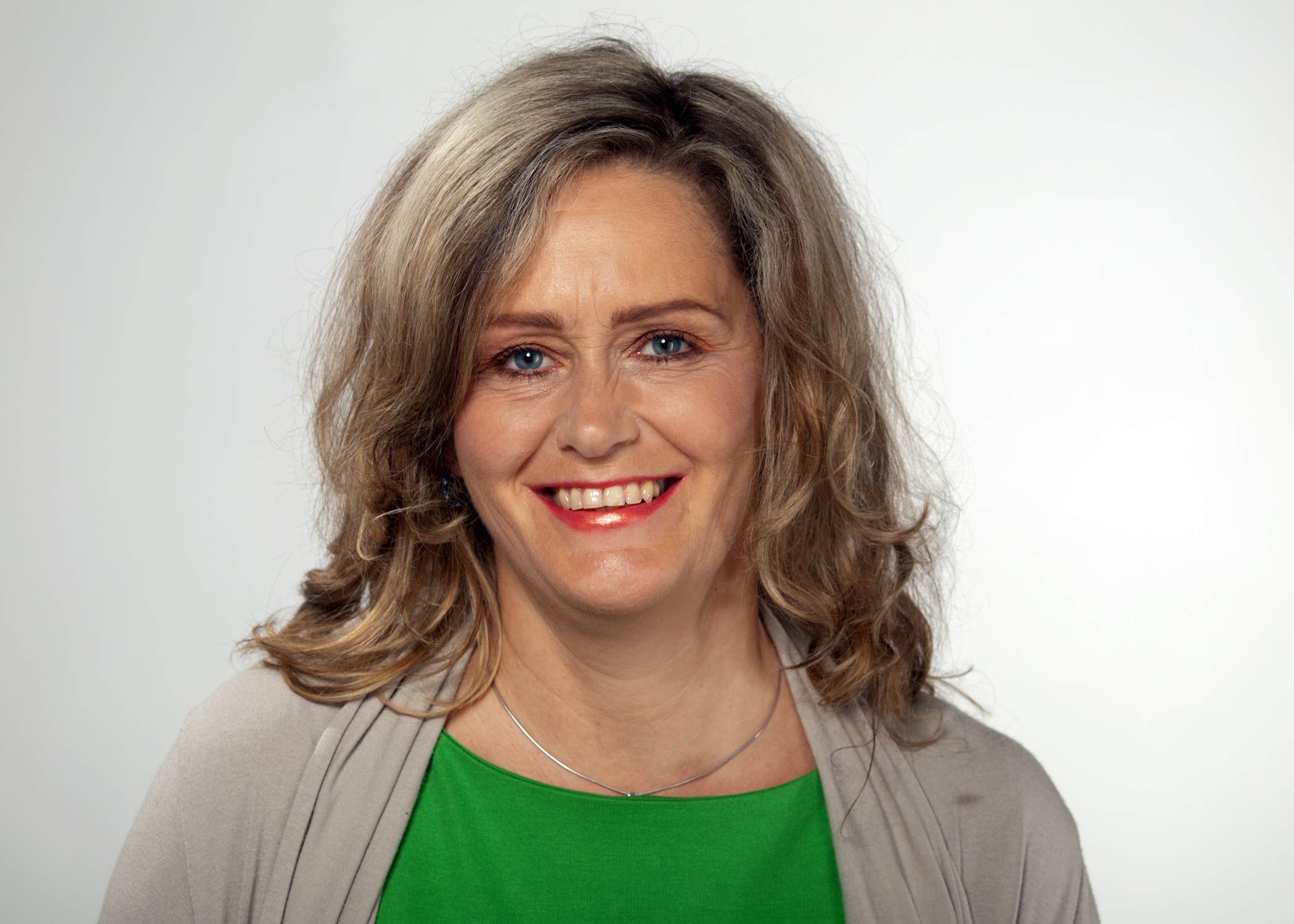 Silke Gajek Wikipedia im Landtag – Mecklenburg-Vorpommern 19. bis 21. Juni 2013 in Schwerin Fragen zur Nachnutzung Wenn Sie Fragen zur Nachnutzung dieses Bildes haben, können Sie sich jederzeit gern an wenden Personality rights warning Although this work is freely licensed or in the public domain, the person(s) shown may have rights that legally restrict certain re-uses unless those depicted consent to such uses. In these cases, a model release or other evidence of consent could protect you from infringement claims.